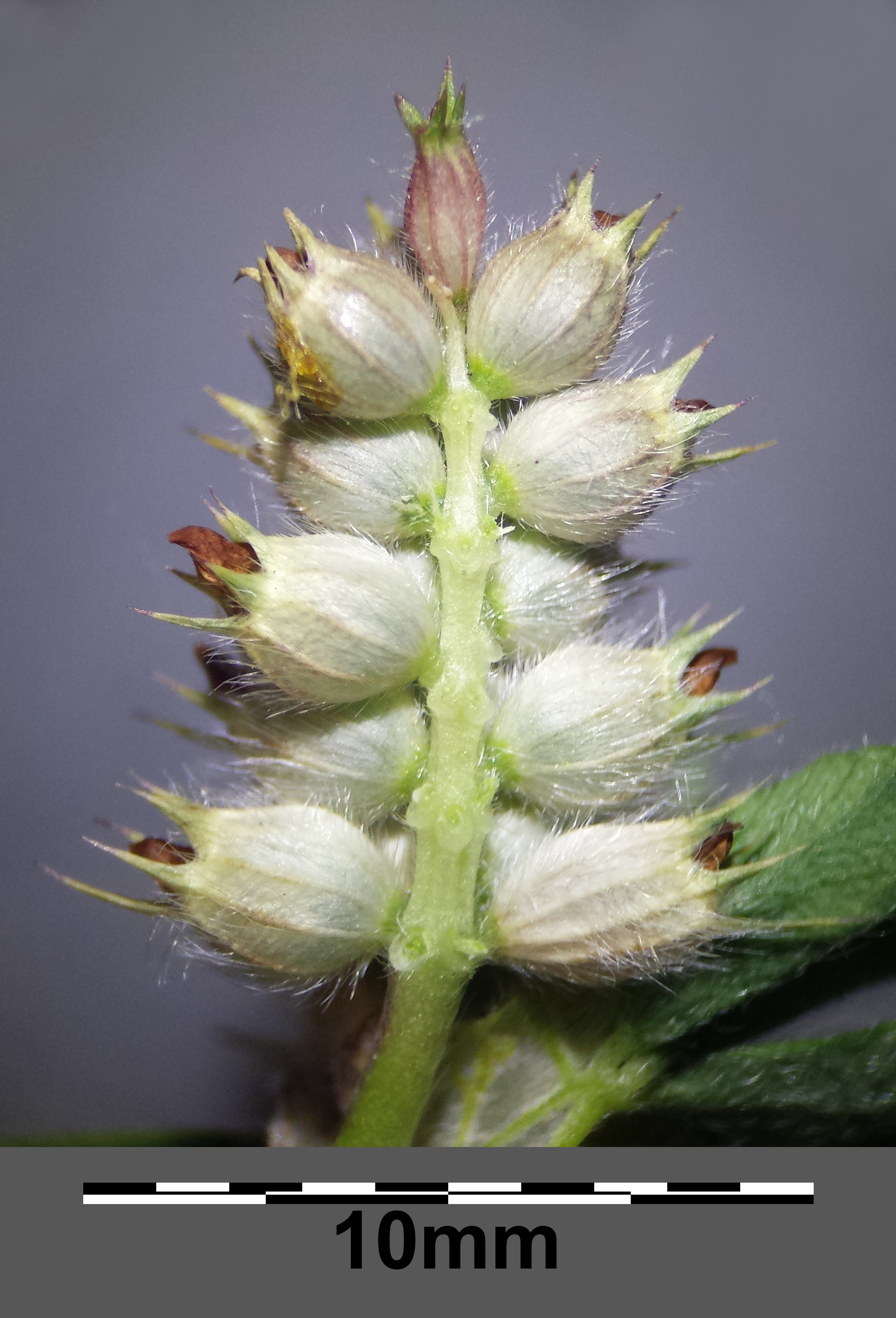 Capitulum, front fruits removed Taxonym: Trifolium striatum ss Fischer et al. EfÖLS 2008 ISBN 978-3-85474-187-9 Location: Korneuburg rail station, district Korneuburg, Lower Austria - ca. 170 m a.s.l. Habitat: ruderal meadows